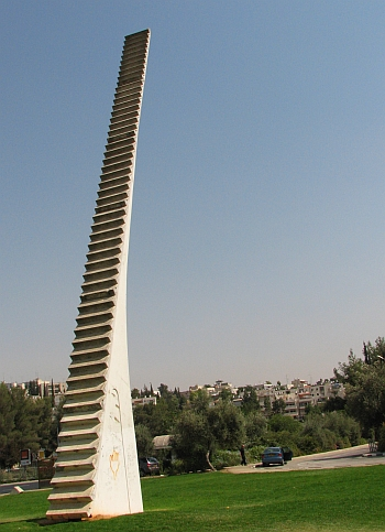 "Sulam Ya'akov" (Jacob's Ladder) sculpture in Givat Mordechai, Jerusalem.